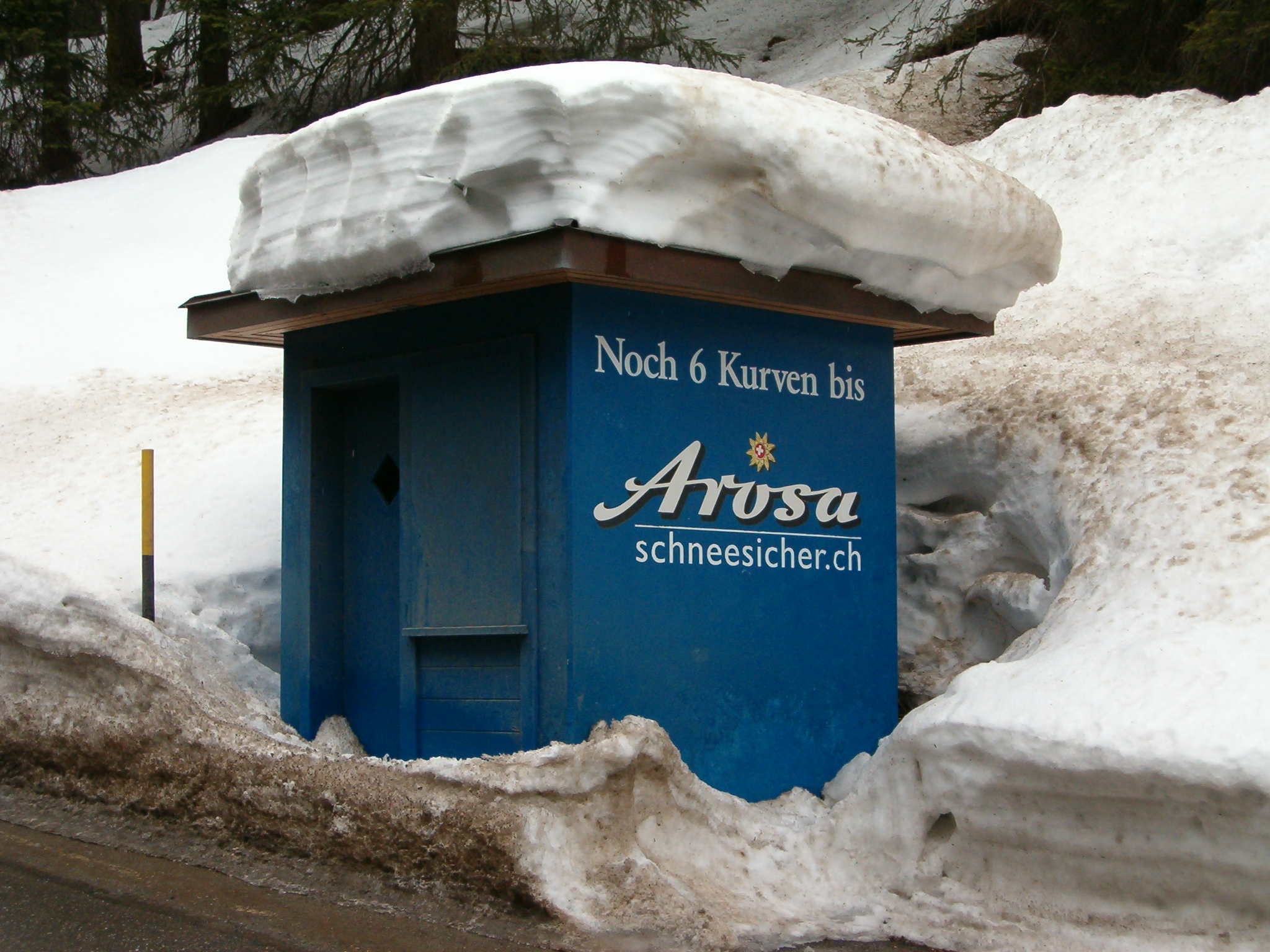 Ancient start building of bobleigh and luge run Arosa, Switzerland